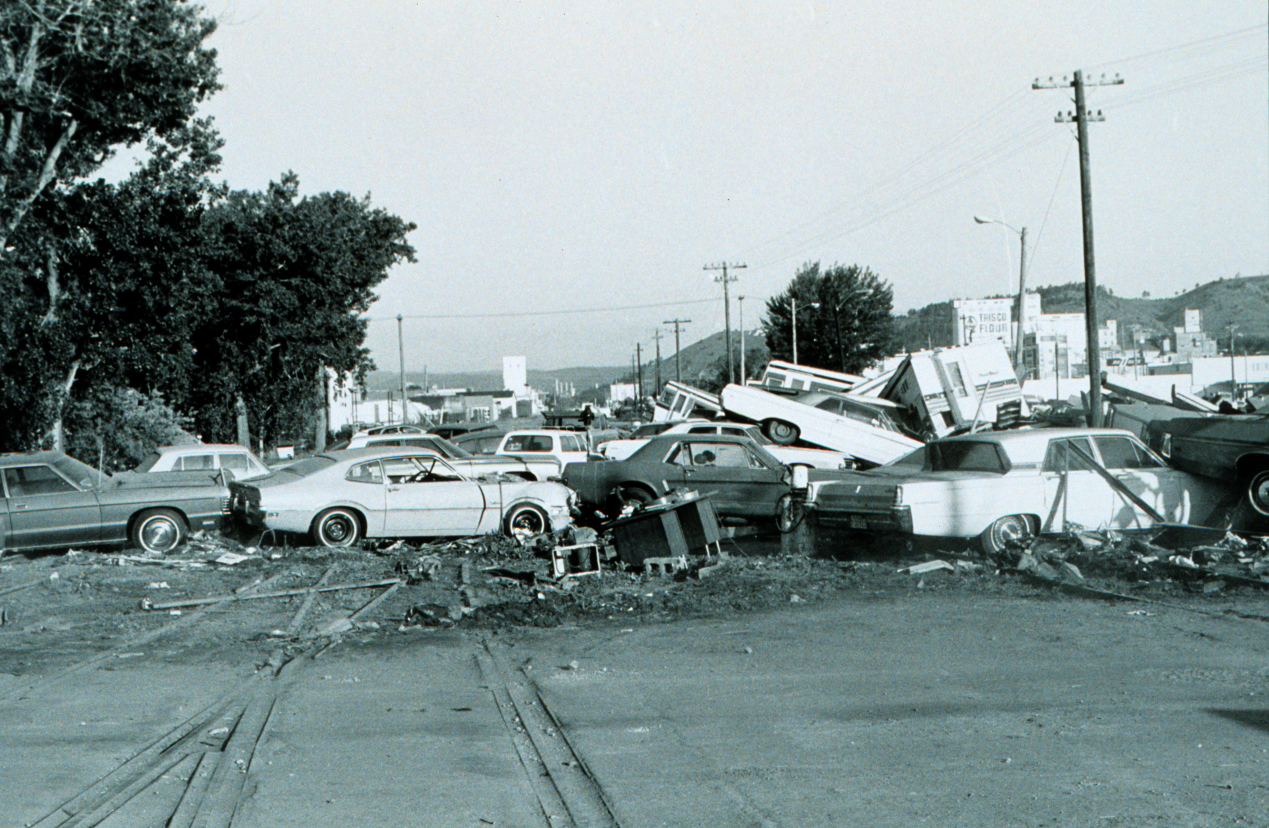 Aftermath of the flash flood of June 9-10, 1972, Rapid City. The original of this image is found at [1]